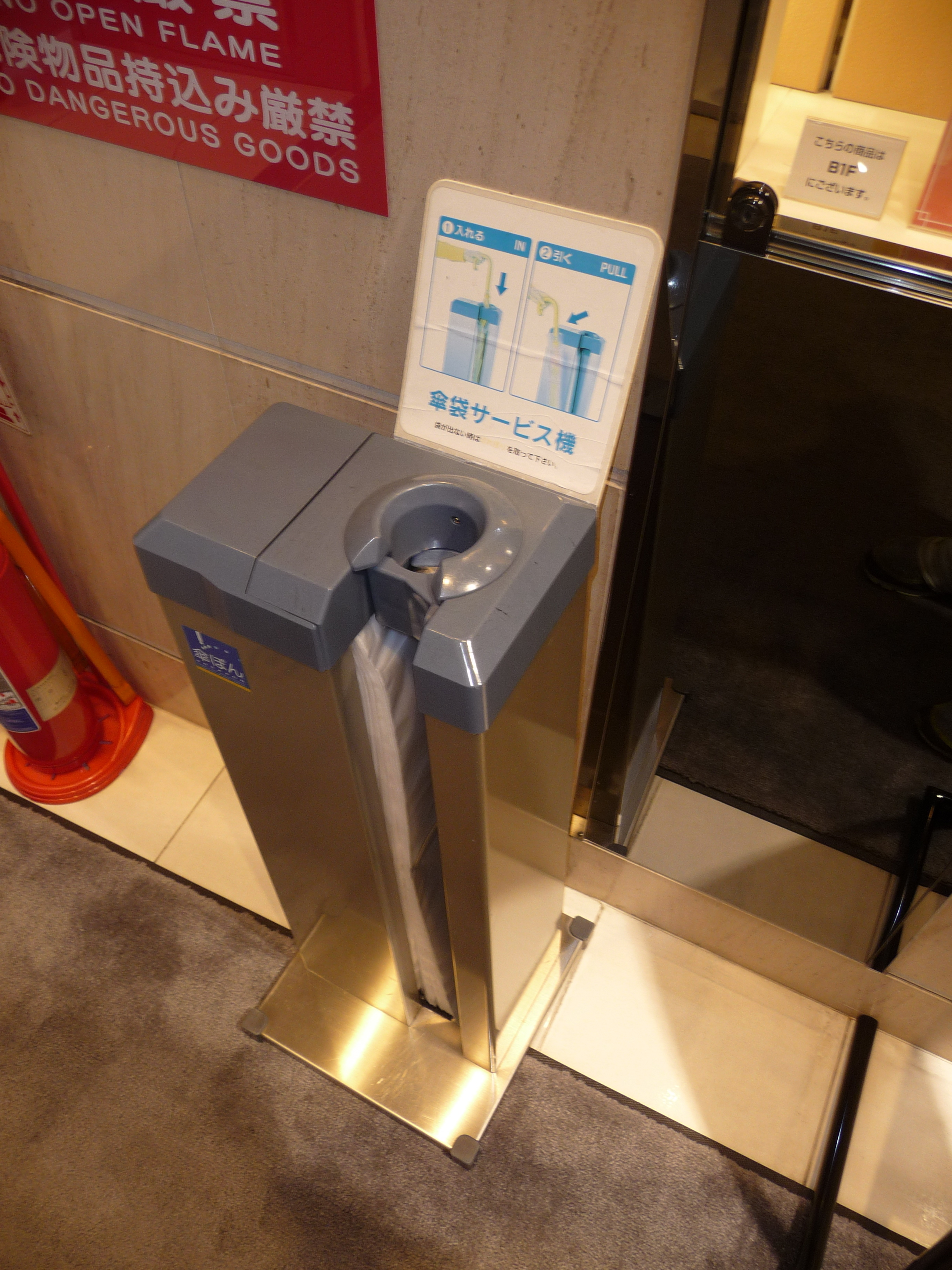 A Japanese umbrella folder.